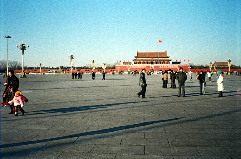 Groups of people wander around Tiananmen Square in the late afternoon.